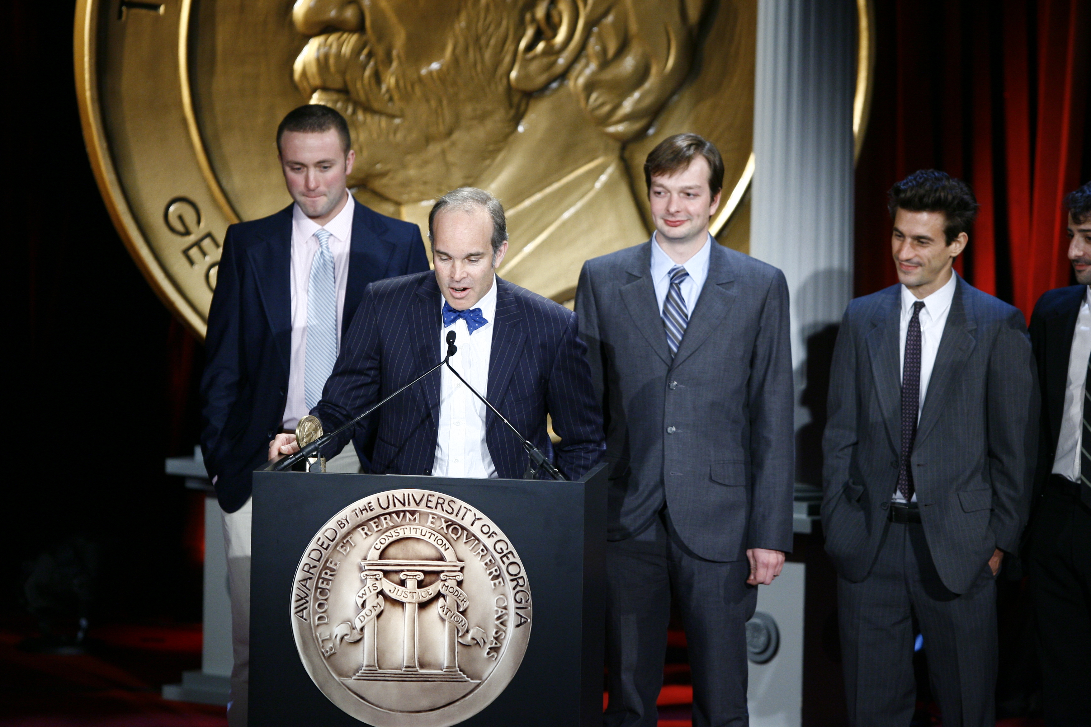 PHOTO CREDIT: ANDERS KRUSBERG / PEABODY AWARDS Ian Cheney, Aaron Woolf, Curt Ellis, and Sam Cullman, 69th Annual Peabody Awards Luncheon Waldorf=Astoria Hotel New York, NY USA May 17, 2010